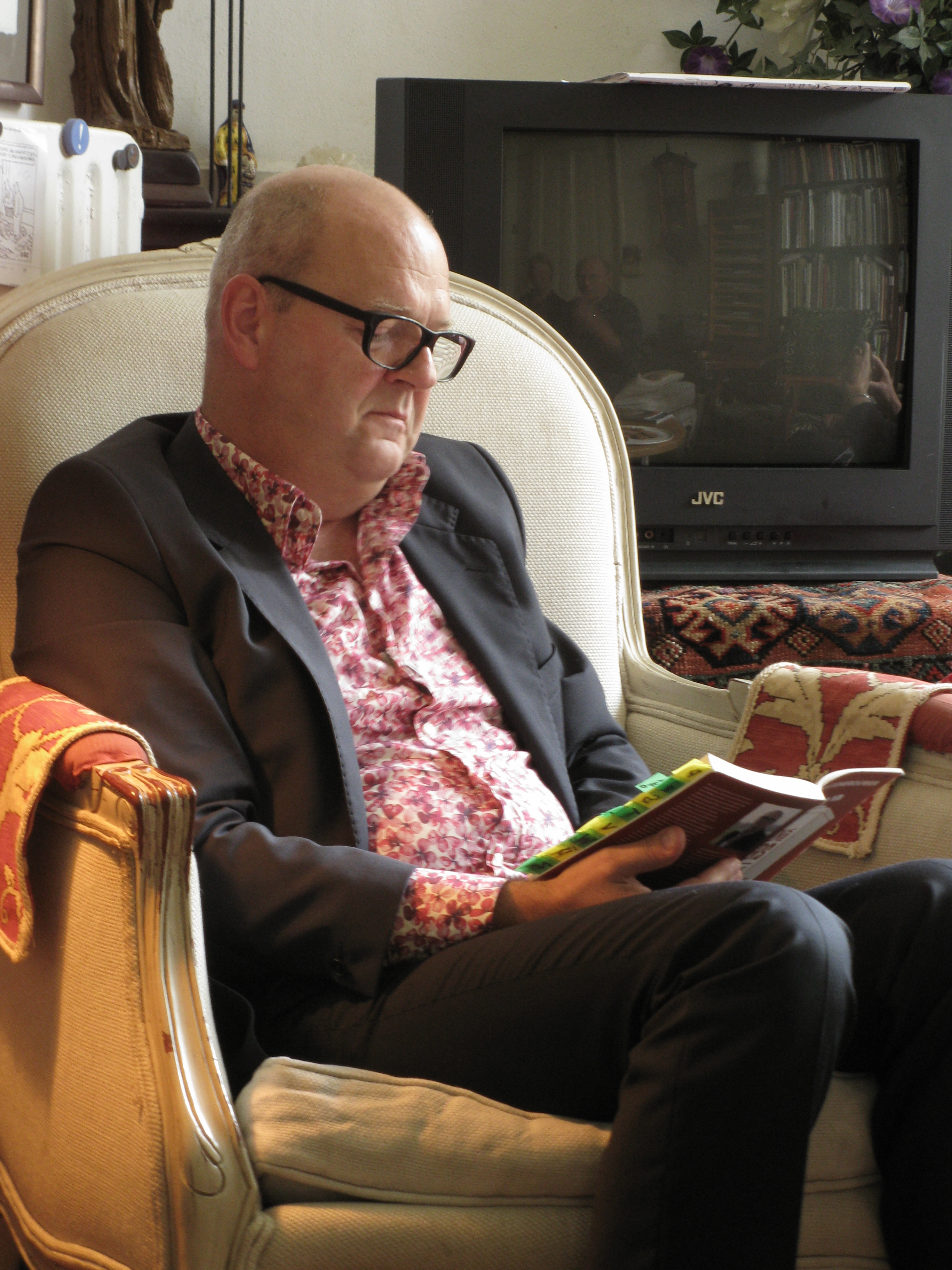 Portrait of Jan KuitenbrouwerPortrait shot at "Verhaal halen" event also known as "Dichter bij huis"